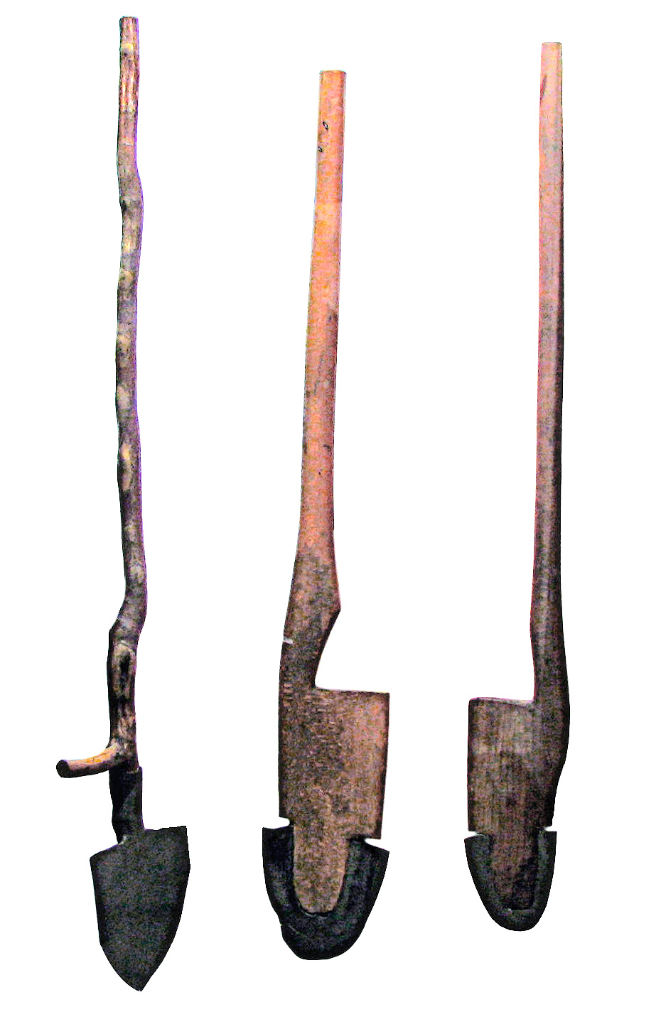 Primitive metal spade (left) and two one-sided wooden metal-shod spades; Еtnološki muzej Beograd (foto: Mihailo Grbić)